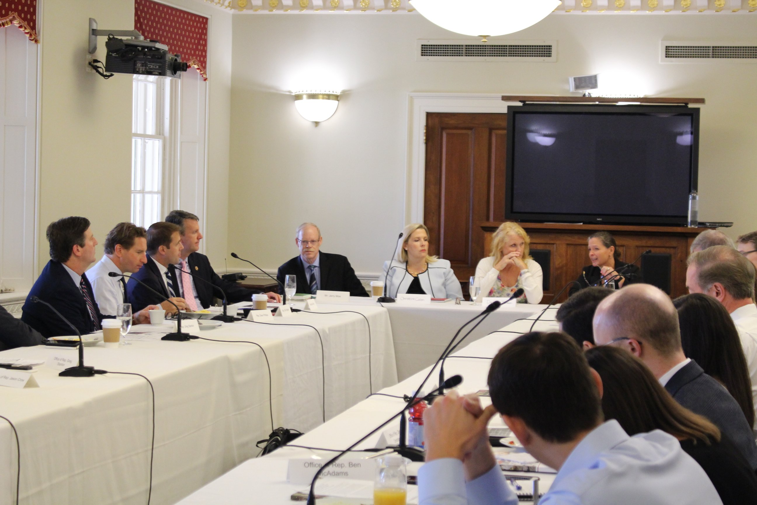 23 million Americans across the nation are recovering from addiction, and 20 million more are still struggling to seek treatment. This morning our Freshman Working Group on Addiction had an important conversation about the impact of the opioid crisis on children and families.